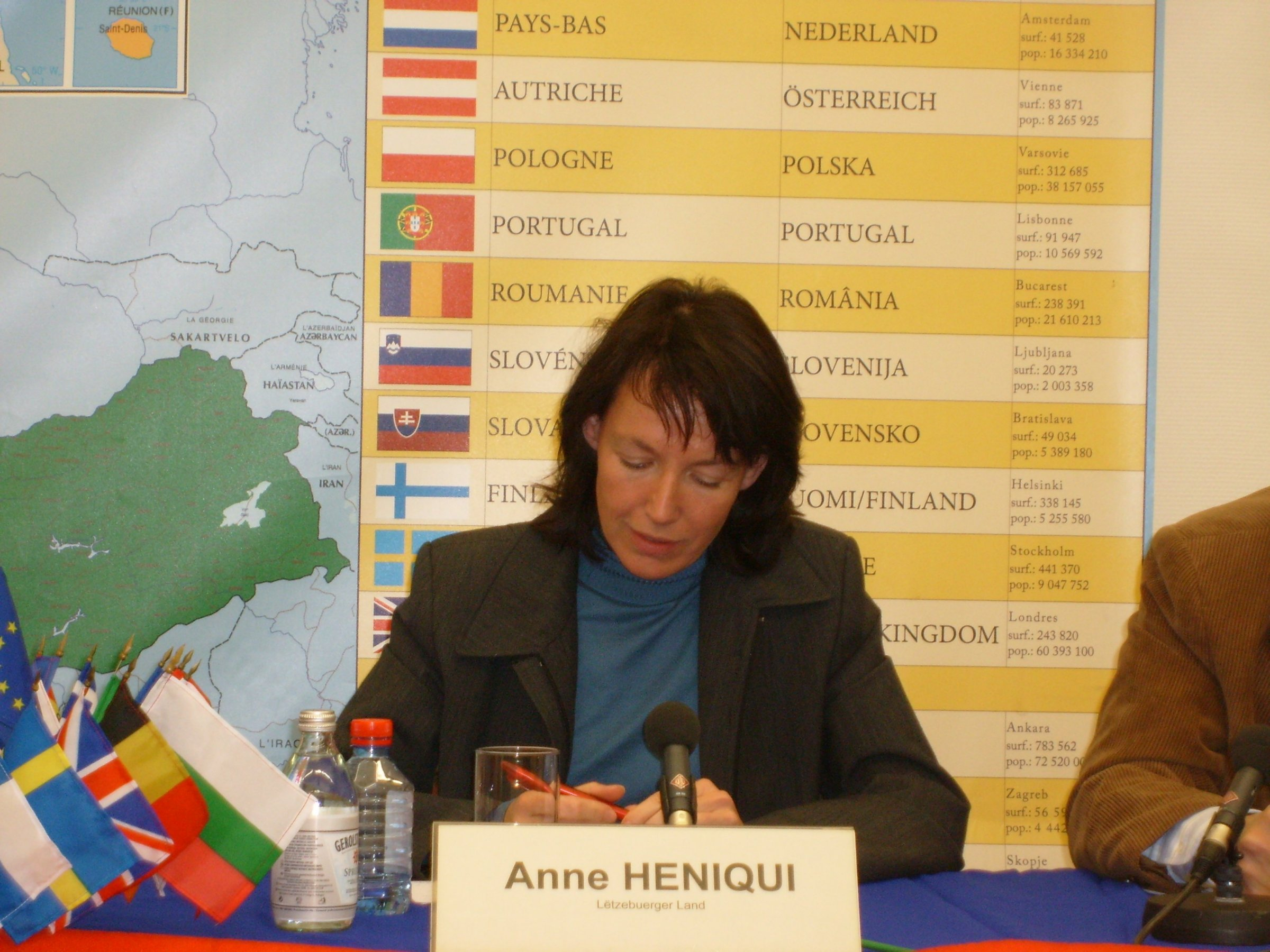 Luxembourg journalist Anne Heniqui at round table with the press called "Presseclub" (organized every fortnight on Sundays by RTL Radio Luxembourg; here a special edition with public audience at the House of Europe in Luxembourg-city).